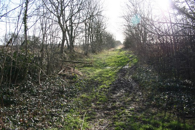 Former trackbed and site of Grainsby Halt. The East Lincolnshire Railway opened in 1847 with Grainsby Halt railway station as an intermediate stop, the halt closed in 1952 and the line closed to passenger trains altogether in 1961.